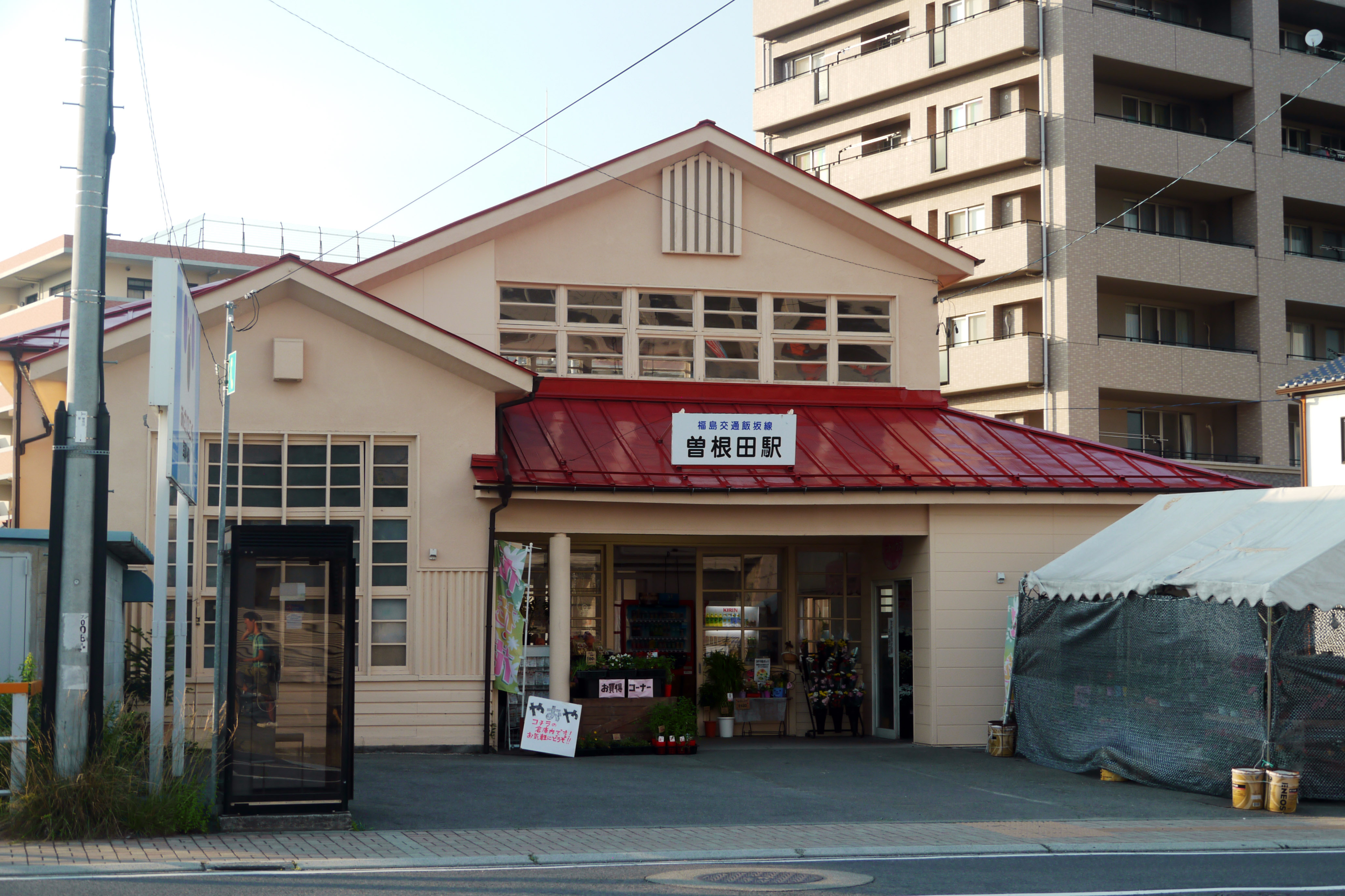 Fukushima Kotsu Iizaka Line Soneda Station in Fukushima, Fukushima, Japan